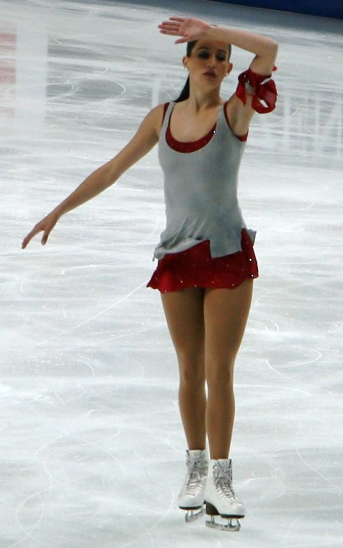 Sonia Lafuente at the 2011 World Figure Skating Championships